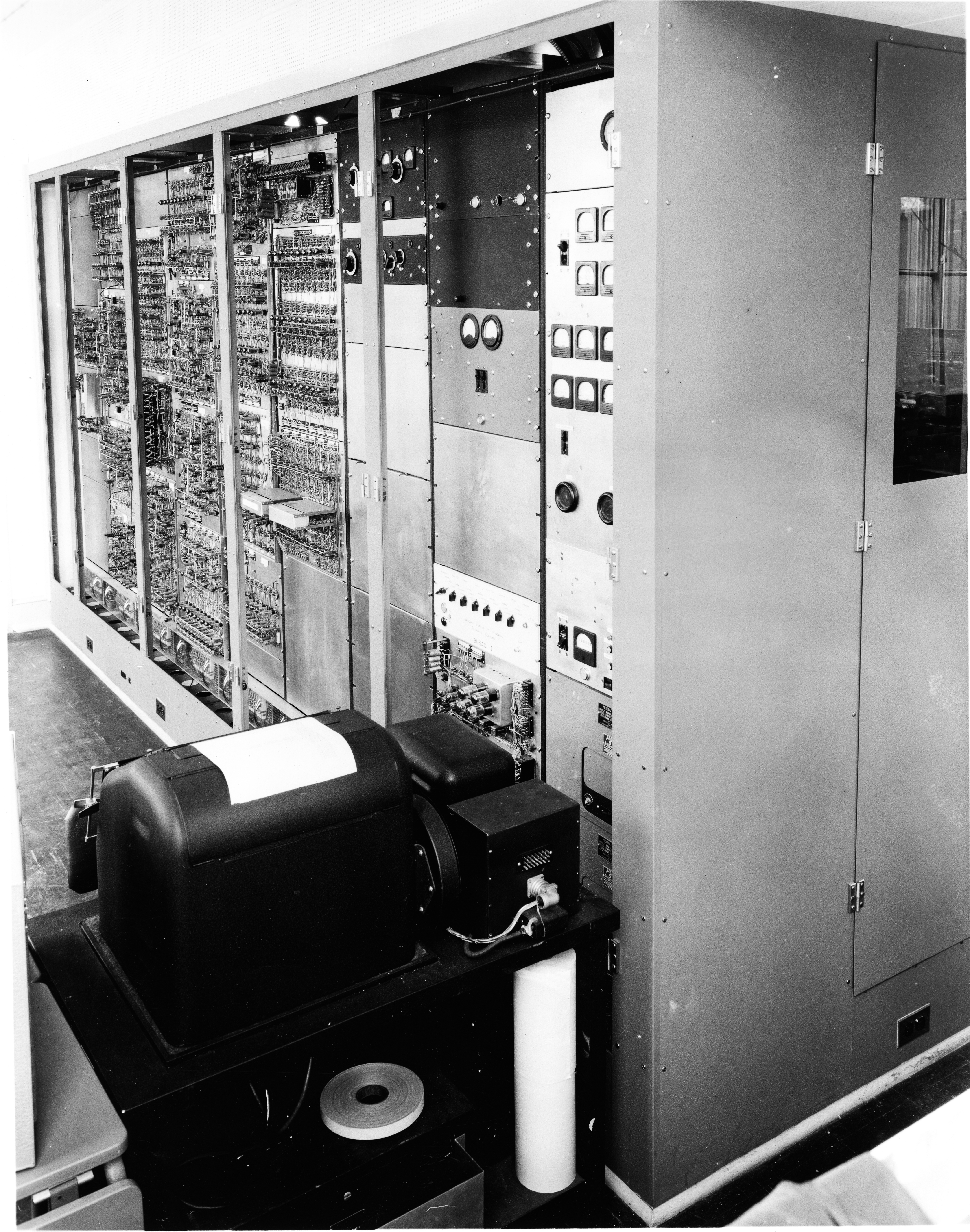 The teletype keyboard and printer were used for direct input and output with numbers and instructions coded in hexadecimal notation. Indirect operation was also possible [in the early operation of SEAC] through the use of punched paper tape.